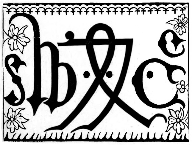 William Caxton's monogram (printer's mark)